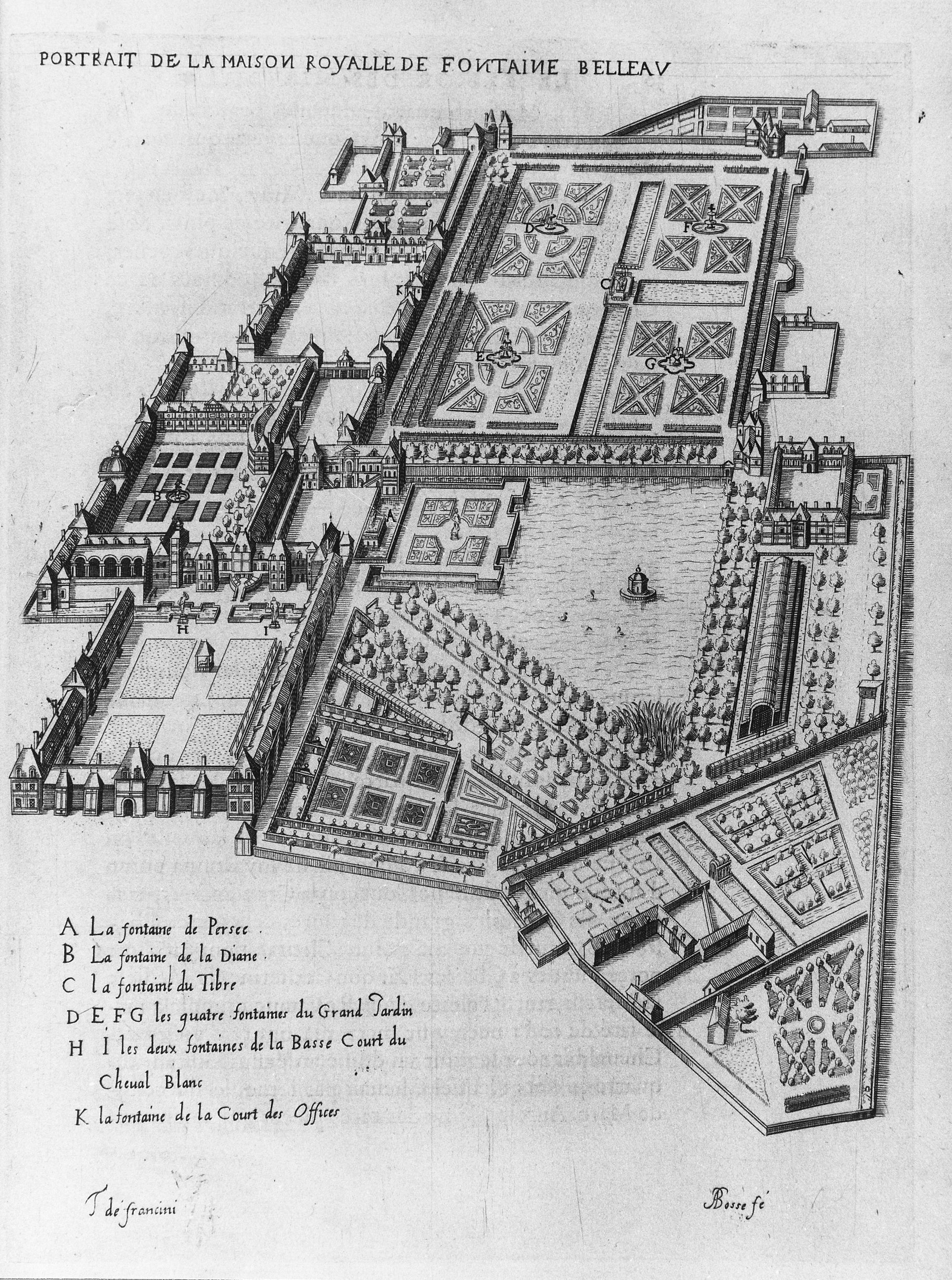 Bird's eye view of the palace of Fontainebleau, engraving from Le Trésor des merveilles de la Maison Royale de Fontainebleau (copy at INHA)